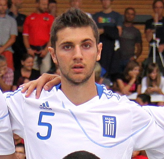 Greece U-21 before the friendly-match against Austria U-21 (2:3), 2011-09-05 in Gloggnitz – The photo shows (from left to right) 1st row: Nikos Kaltsas (Veroia FC), Alexis Apostolopoulos (Paok FC), Nikos Karelis (Ergotelis FC), Kostas Triantafyllou (Panserrakios FC), Christos Chrysofakis (Ergotelis FC); 2nd row: Goiuri Londigin (Skoda Xanthi FC), Apostolos Vellios (Everton FC), Dimitris Stamou (Paok FC), Nikos Mitropoulos (Olympiakos Volou FC), Tassos Avlonitis (Kavala FC), Tassos Laos (Panathinaikos FC).